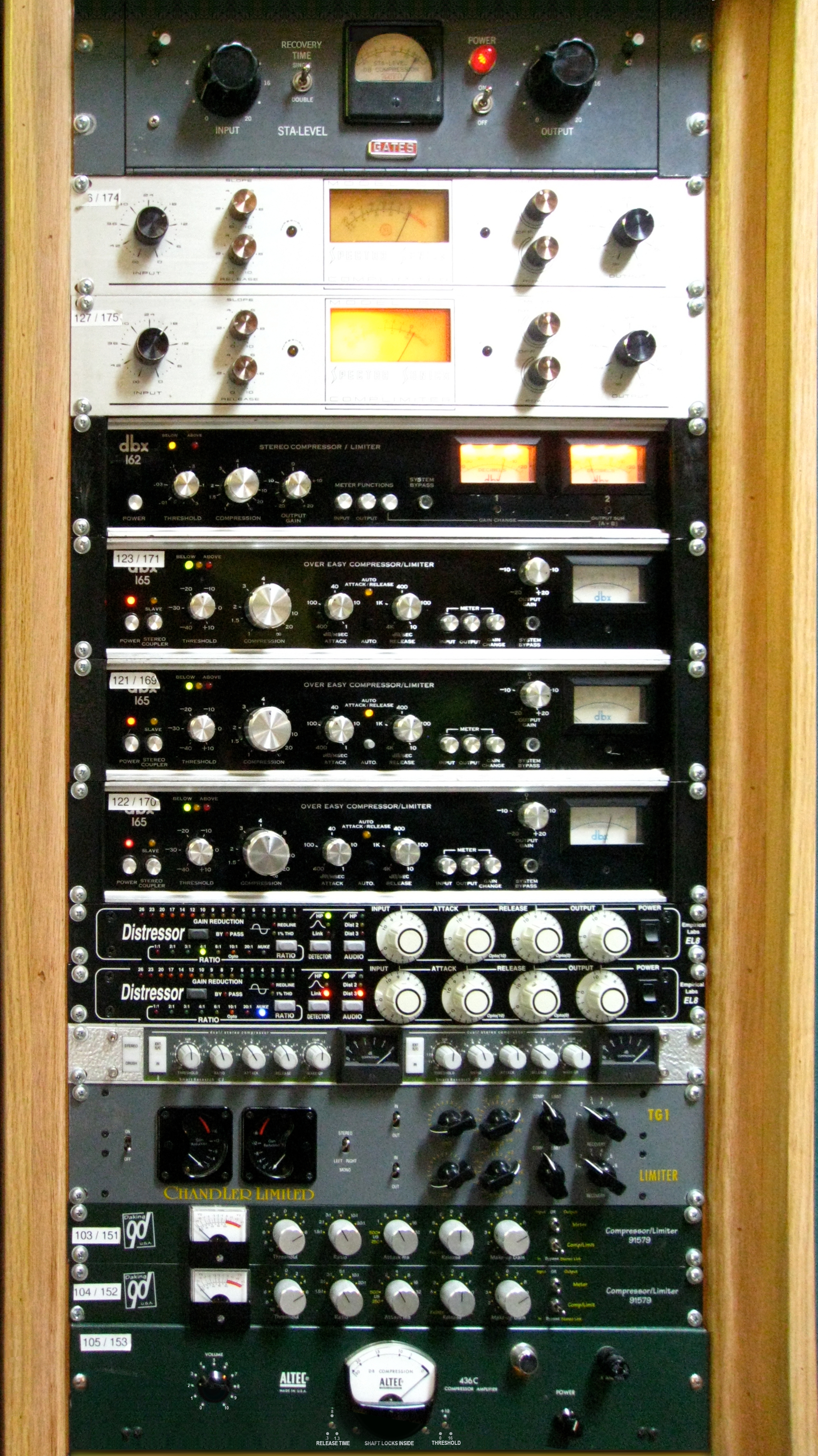 Supernatural Sound - compressor rack Gates Sta-Level Spectra Sonics Model 610 (× 2) dbx 162 stereo compressor/limiter w/VU dbx 165 over easy compressor/limiter w/VU (× 3) Empirical Labs EL8 Distressor (× 2) Alan Smart C2 Dual/Stereo Compressor Chandler TG-1 Daking 91579 (× 2) Altec 436C